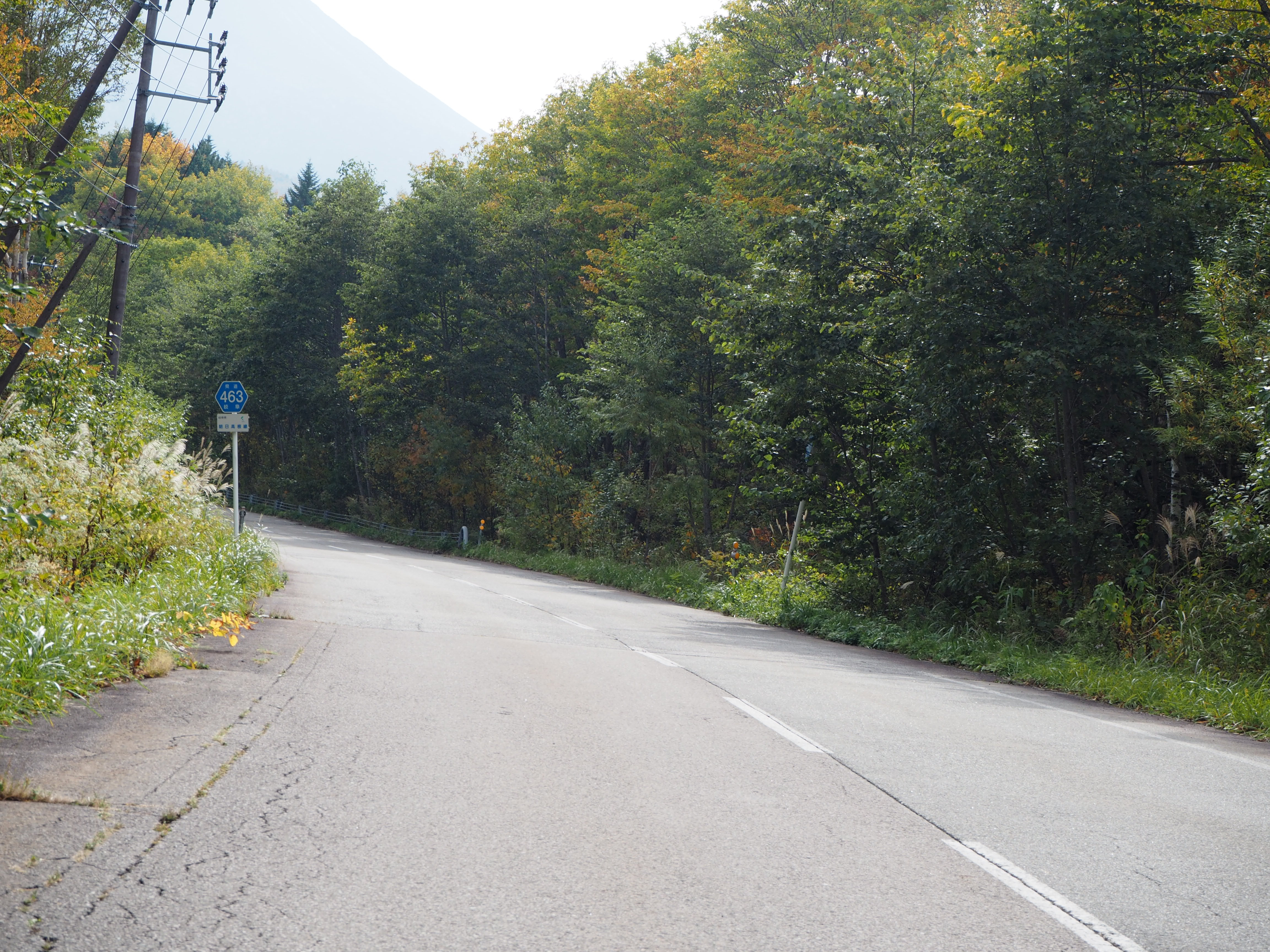 Gifu Prefectural road 463